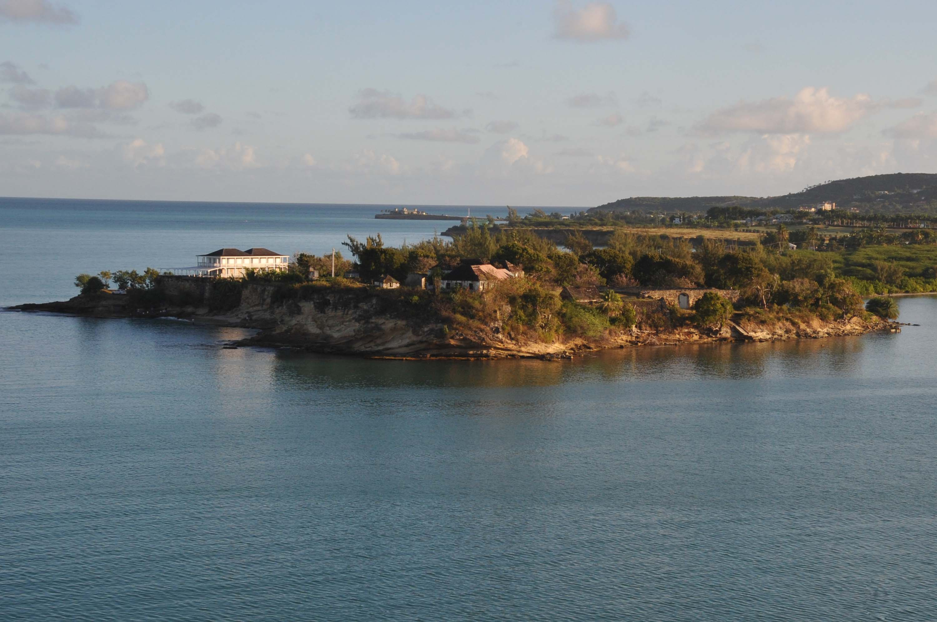 FT. JAMES LOCATED ON THE NORTH HEADLAND COMING INTO PORTS; BUILT IN 1706 TO WARD OFF A POSSIBLE FRENCH INVASION. ONLY ONE CANNON REMAINS NOW